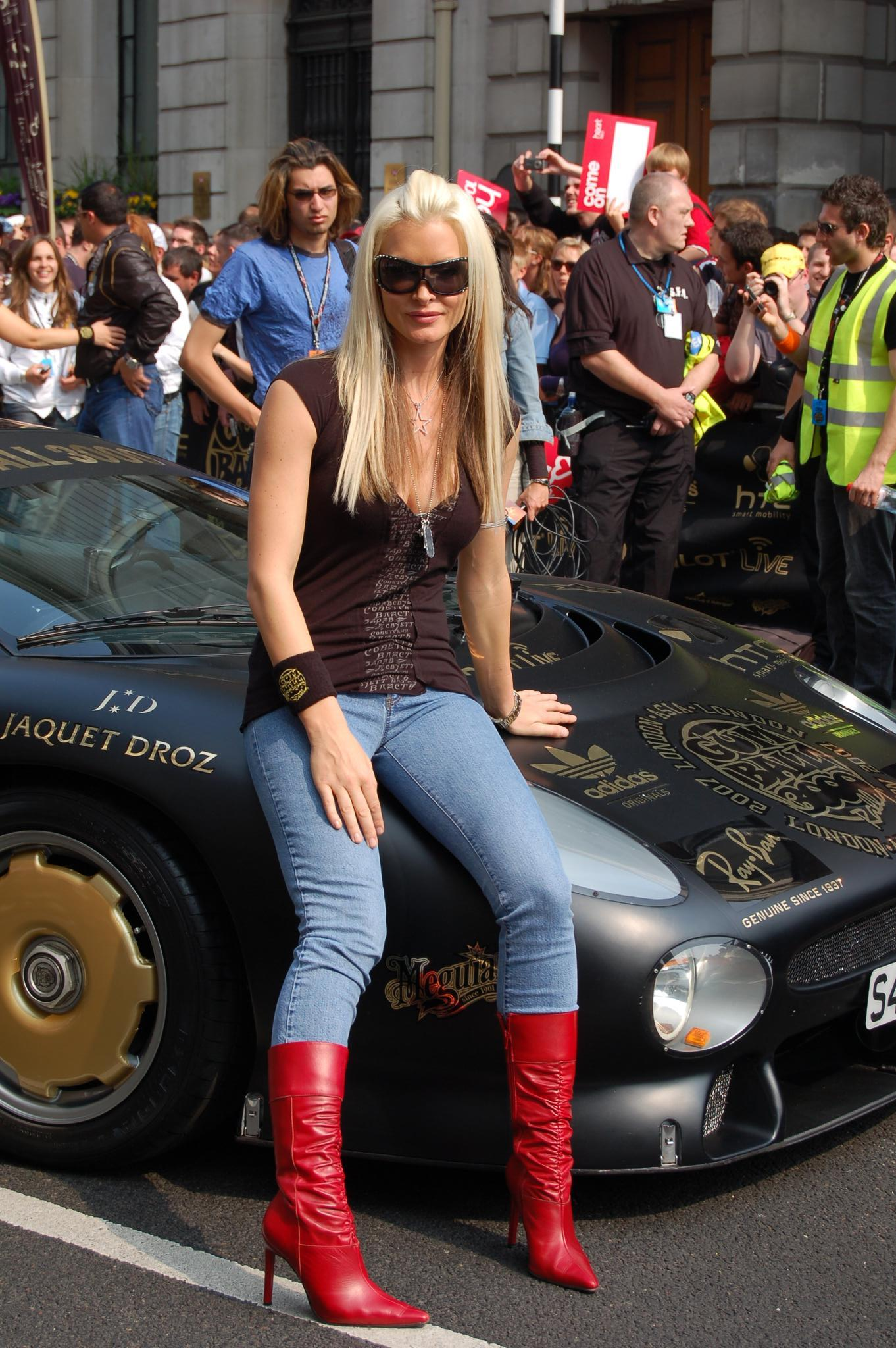 Caprice Bourret at The Gumball Rally 2007, London.